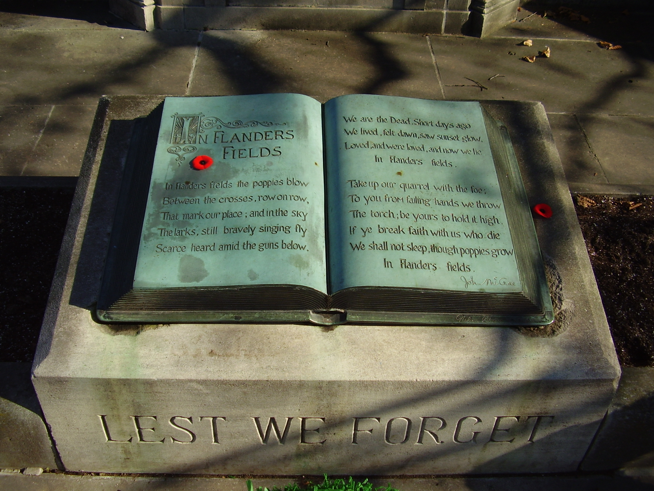 Remembrance Day at the John McCrae House (birthplace, museum, & memorial) in Guelph, Ontario Canada. A detail shot of the "altar" of the memorial, with the complete poem "In Flander's Fields" & the line "LEST WE FORGET" inscribed on it. 2 Canadian remembrance day poppy pins & part of a wreath are visible.